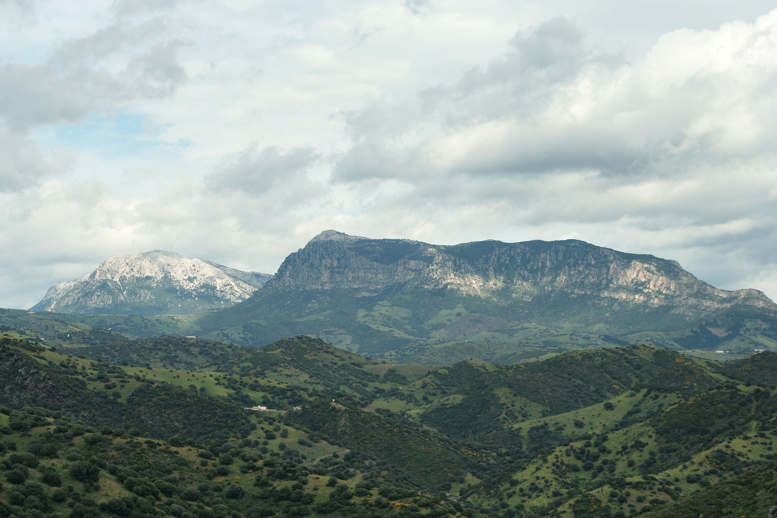 View from the sacred source Su Tempiesu near Orune to Monte Albo near Lula. Sardinia, Italy